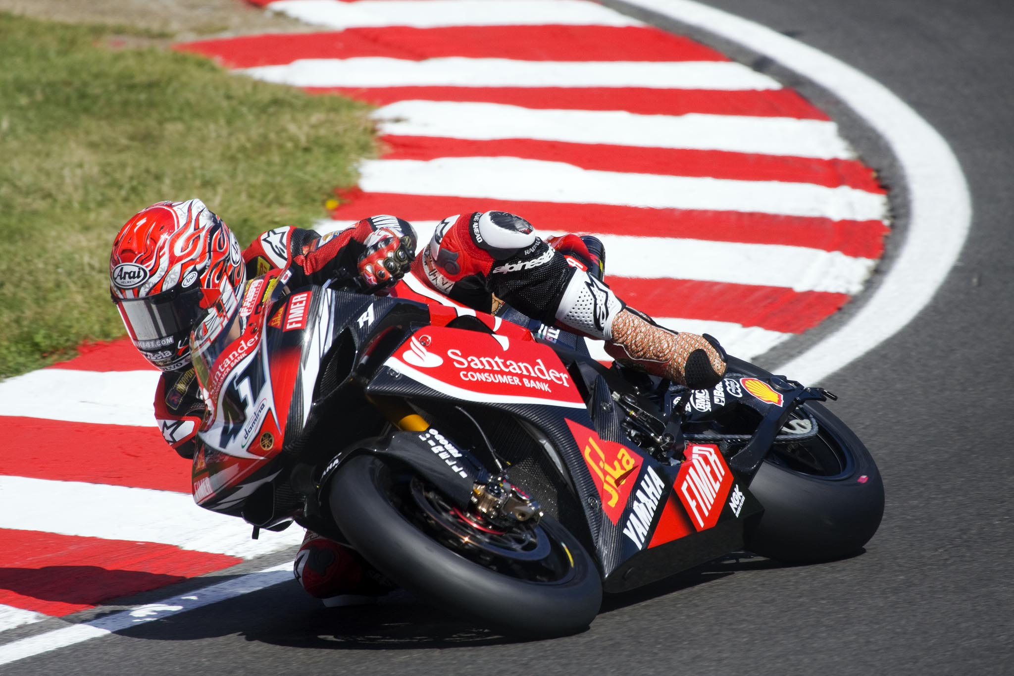 World Superbikes 2008 at Brands Hatch UK, Druids bend. Practice Day. Yamaha YZF-R1